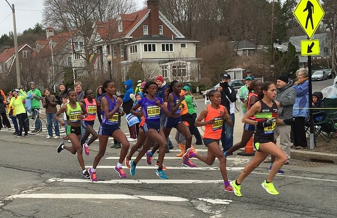 A group of nine women lead the race at Beaumont Avenue, Newton (mile 19), during the w:2015 Boston Marathon. Eventual winner Caroline Rotich is on the left. Bizunesh Deba leads followed by Mare Dibaba.